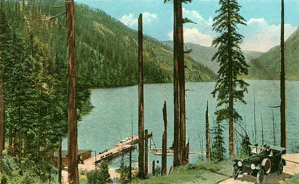 East Beach ferry dock, on Lake Crescent, Washington, from a postcard published in 1916